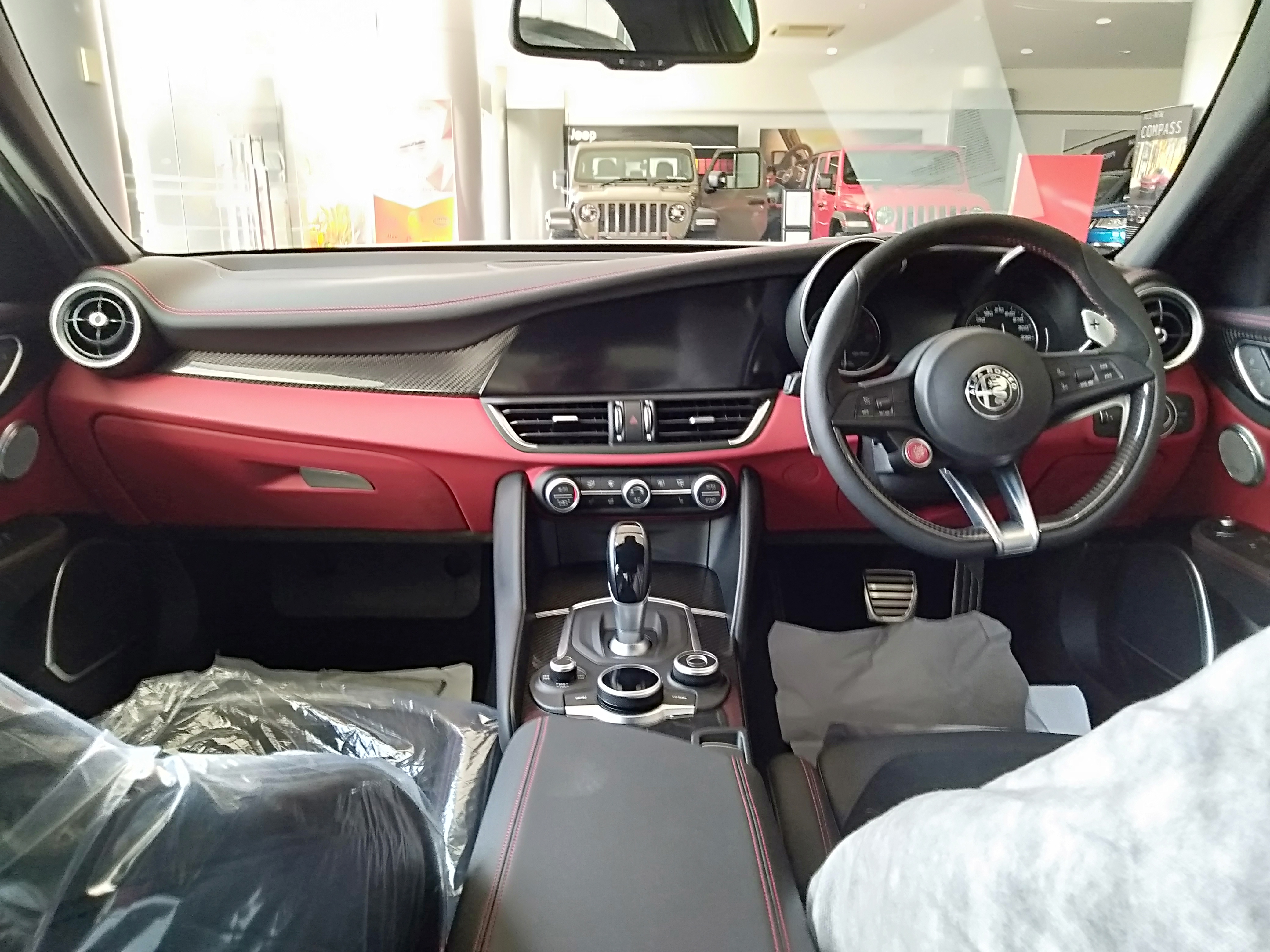 2021 Alfa Romeo Giulia Quadrifoglio 2.9 silver interior view. Photographed at GHK Motors Sumbangsih Mulia, Beribi, Brunei.